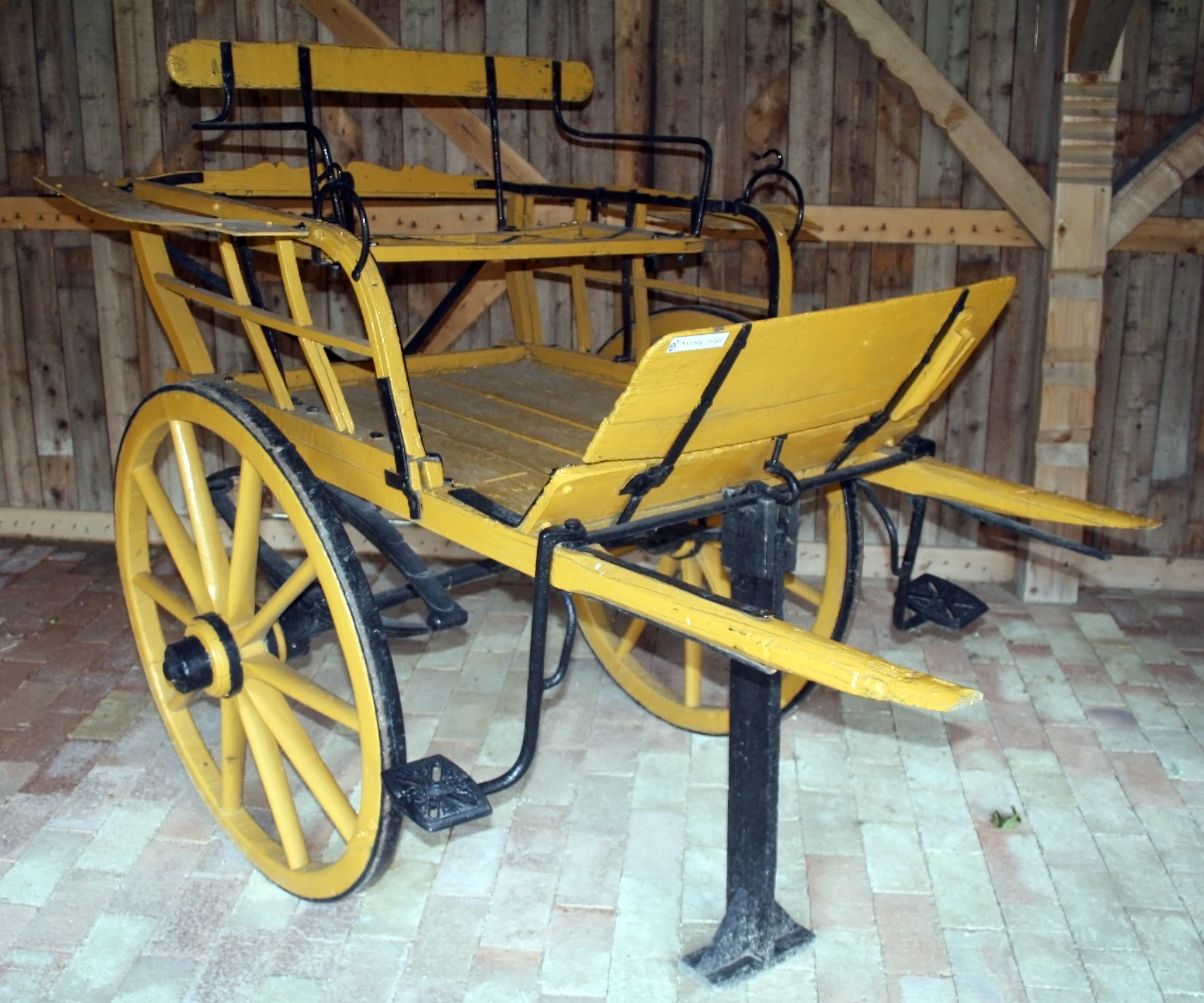 Nyirseg type two-wheel carriage